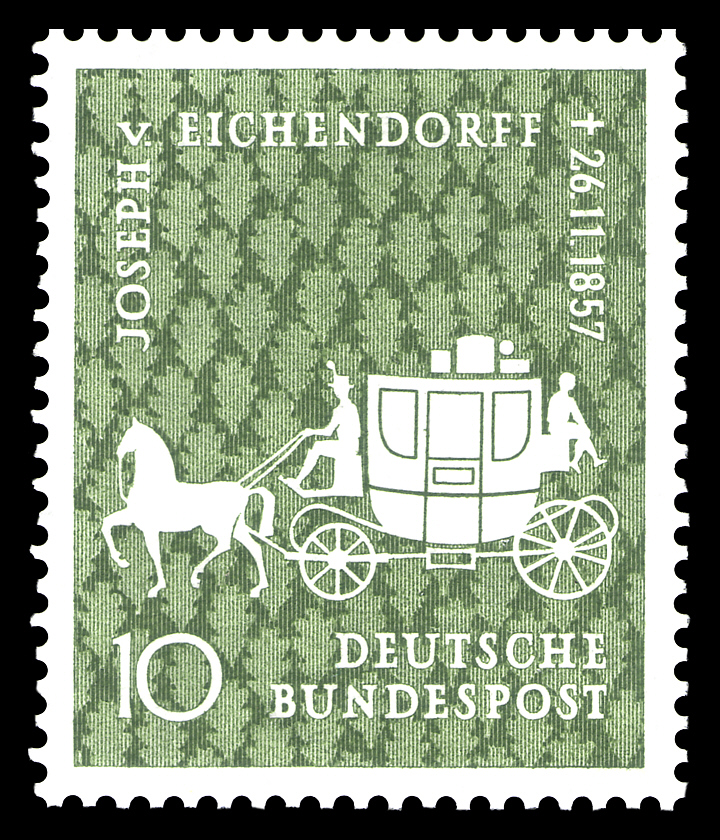 Special stamp for the 100th anniversary of the death of Joseph von Eichendorff (1788-1857)